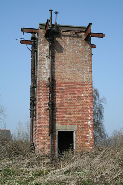 Wartime legacy This building remains as a legacy of the days when this whole site was a munitions factory.Judging by the pipe work and valves this may have been a water tower, but could have been something more sinister.